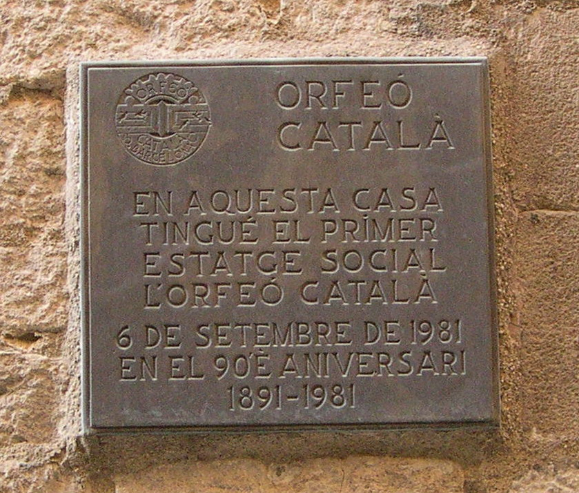 Lledó street 6, Barcelona.